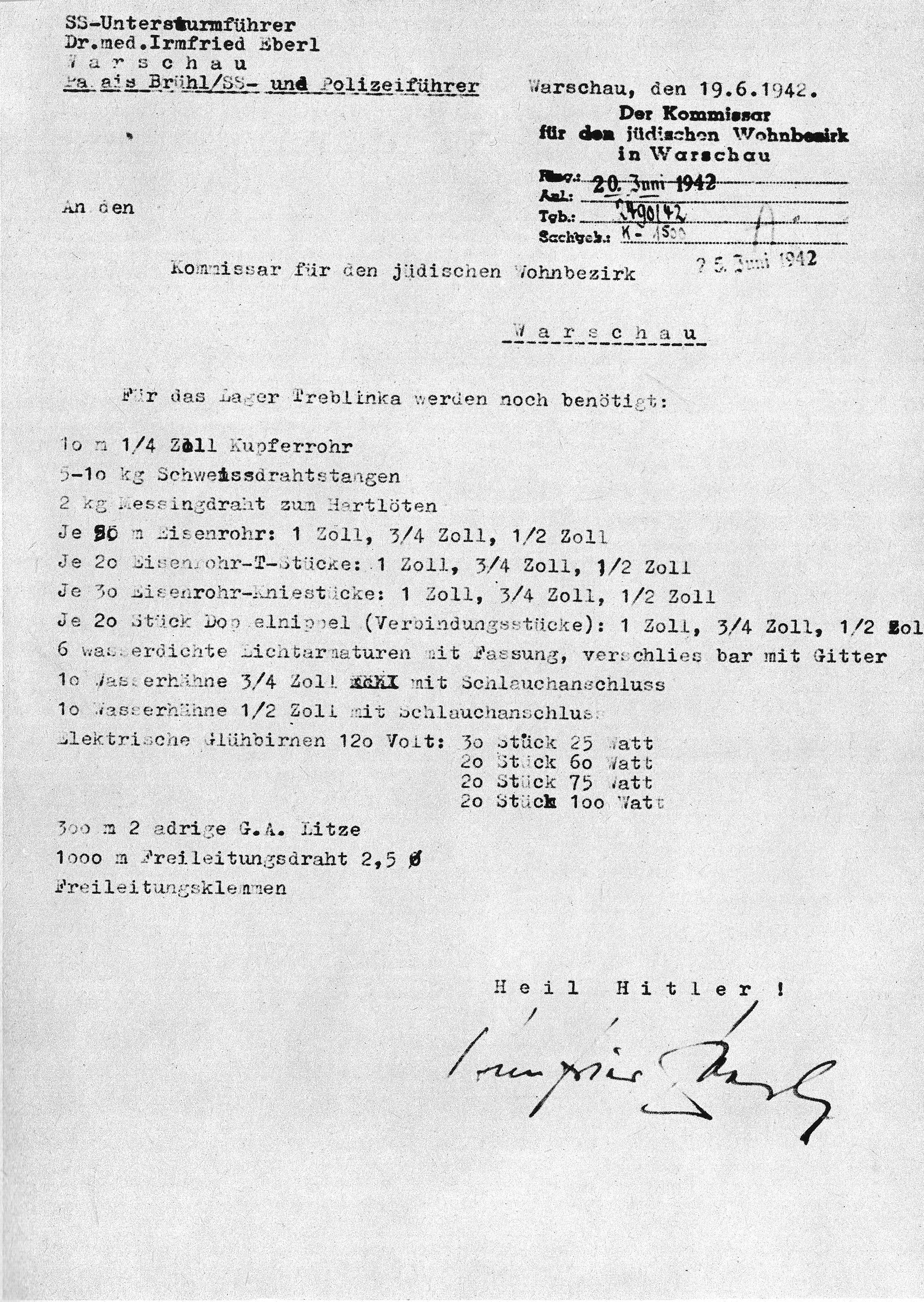 A letter of Irmfried Eberl, commandant of the Treblinka extermination camp, to the Commissioner for the Jewish residential district in Warsaw Heinz Auerswald concerning the delivery of materials and equipment for the camp